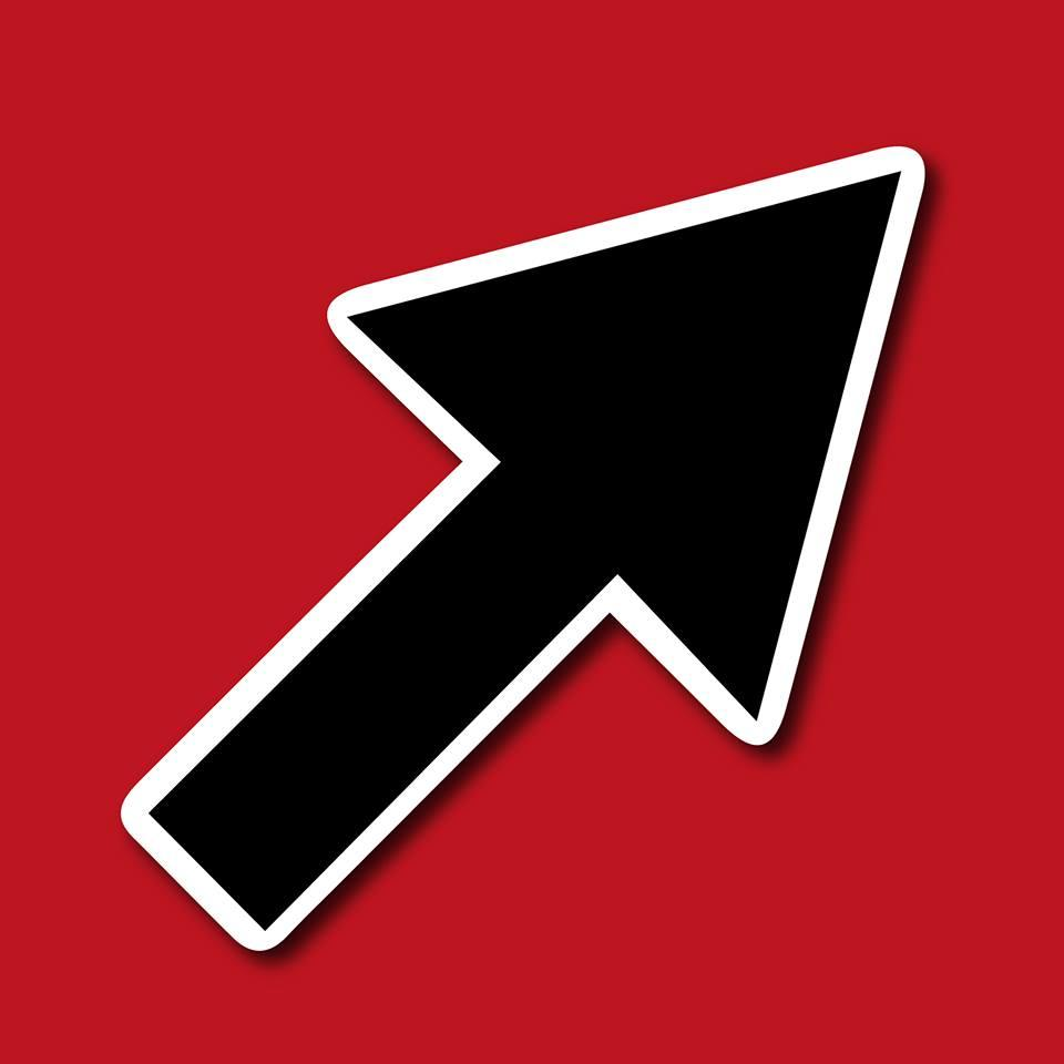 Logo of the German political party "Die Rechte"